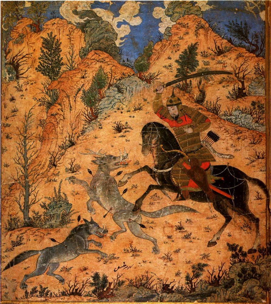 Isfandiyar fights with the Wolves Shah-nama. From the Sarai Albums Tabriz, ca. 1370 Hazine 2153, folio 73b Painting under the Jala'ir rule Kept at Topkapı Palace Museum